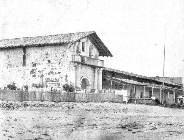 Mission Dolores from 1856